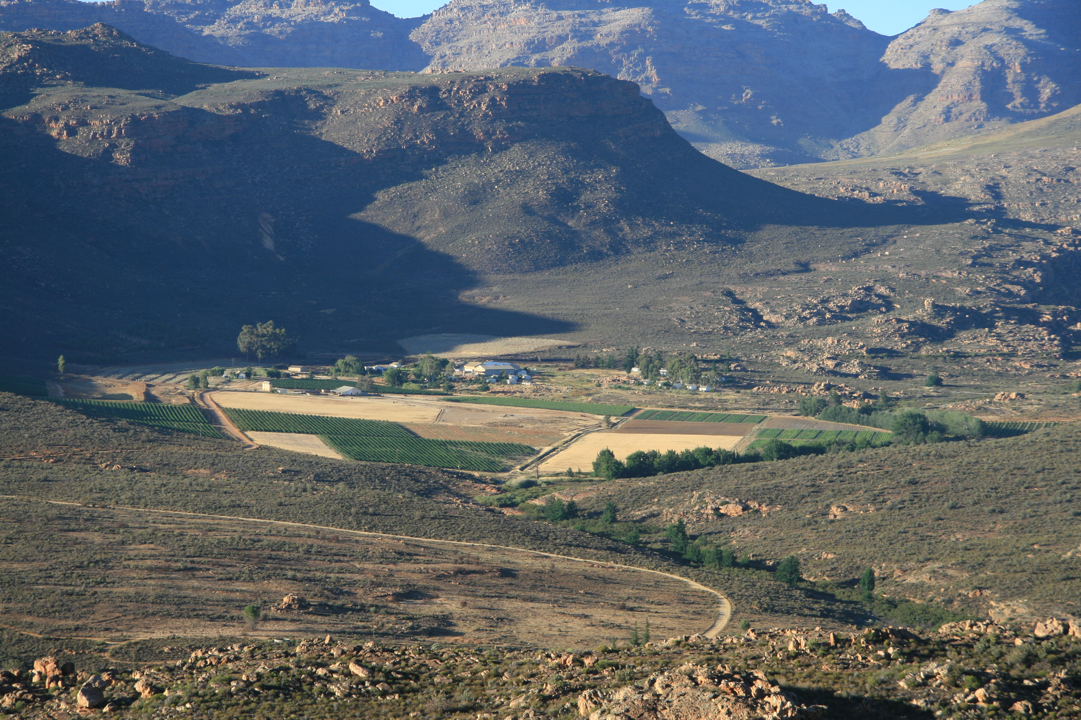 Landscape of vineyards in the Cederberg mountain range location.